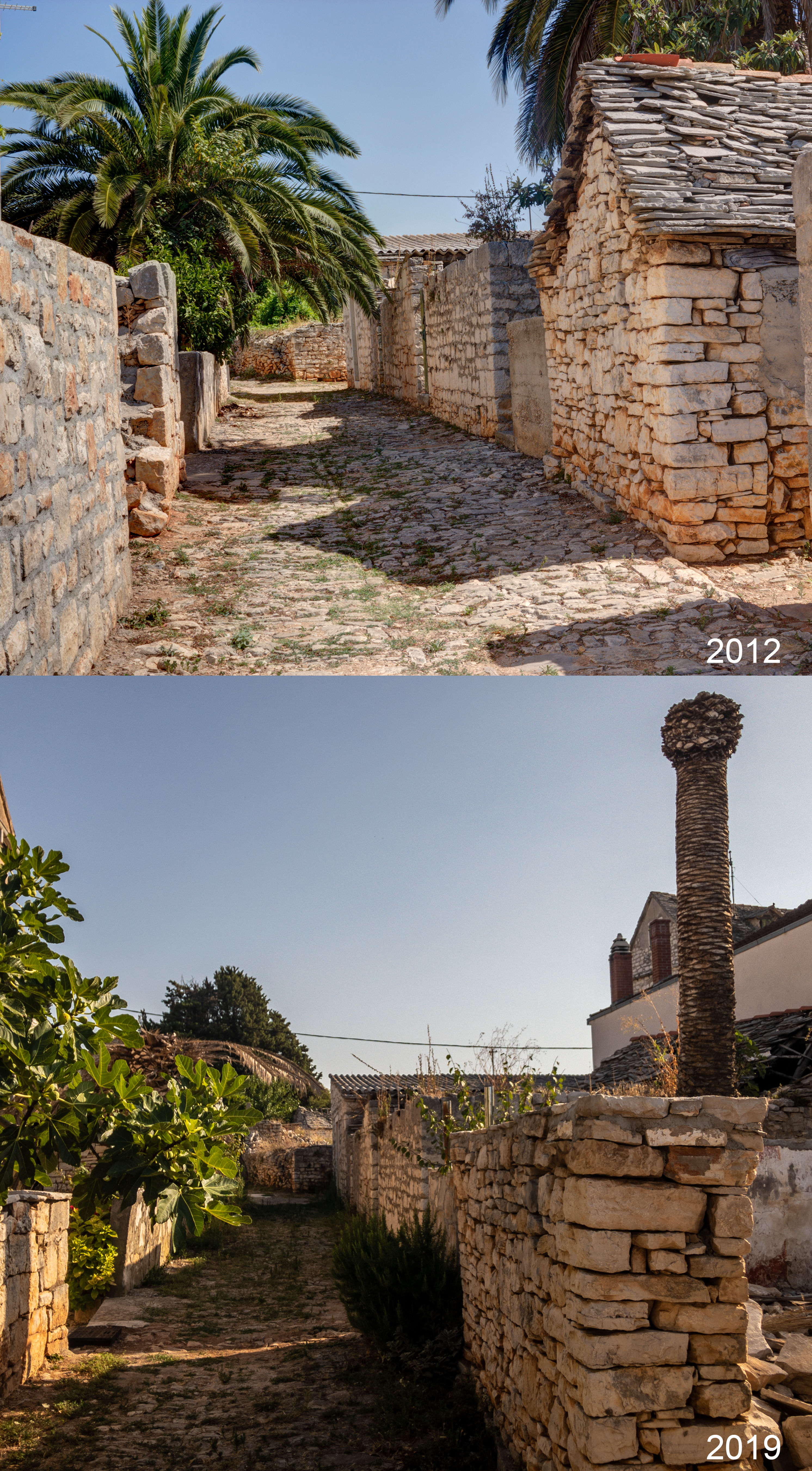 Side street of the Vratića put in Grohote on the island Šolta / Croatia / Adriatic Sea / EU. 2012 - Old stable / house made of limestone covered with stones. To the right and left of the stone-paved path date palms. 2019 - The stone roof of the stable has collapsed, the palm trees have died. They are victims of the Red Palm Trunk Beetle (Rhynchophorus ferrugineus).